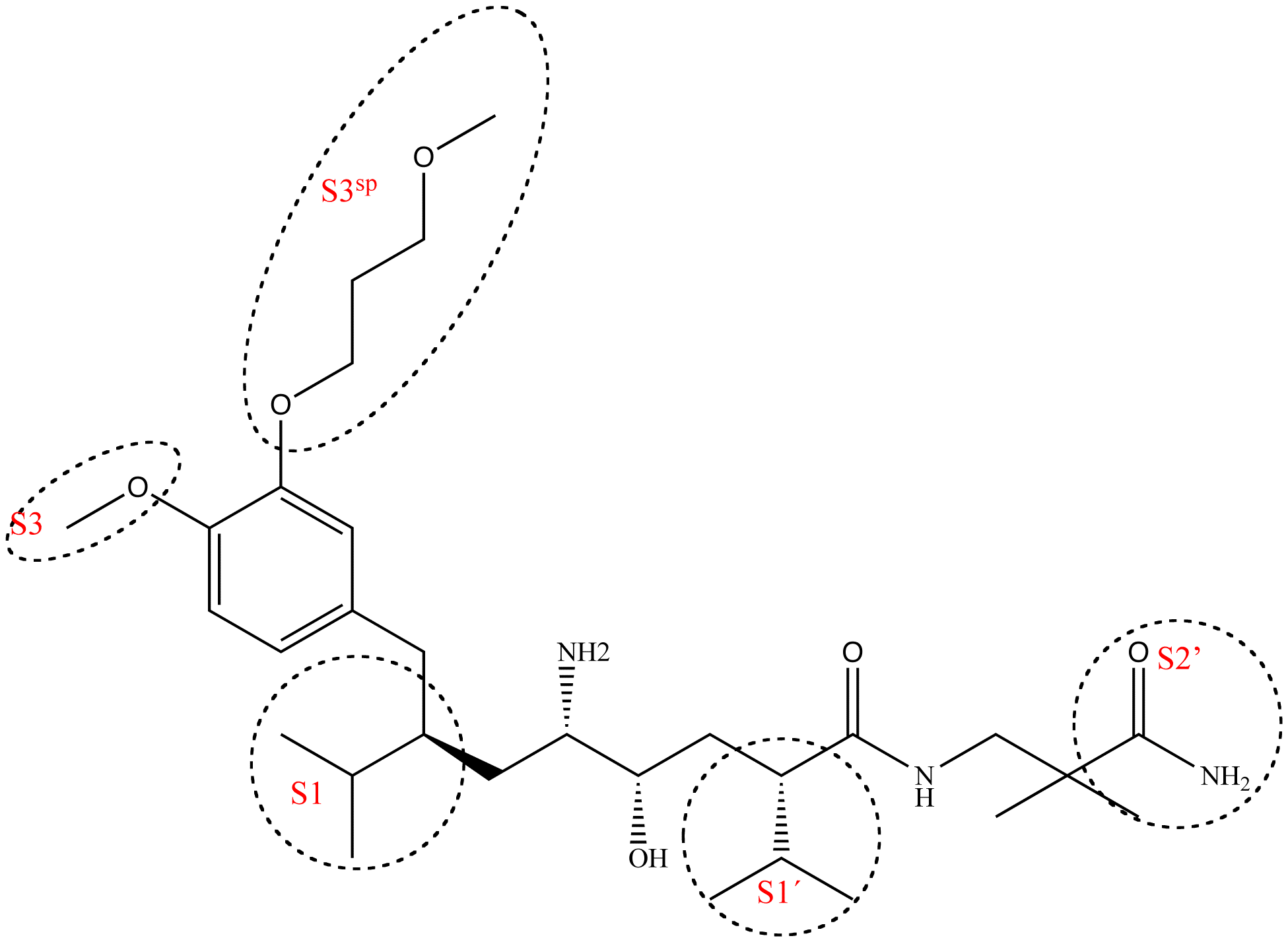 Binding pockets that aliskiren connects with. Created using CS ChemDraw Ultra.